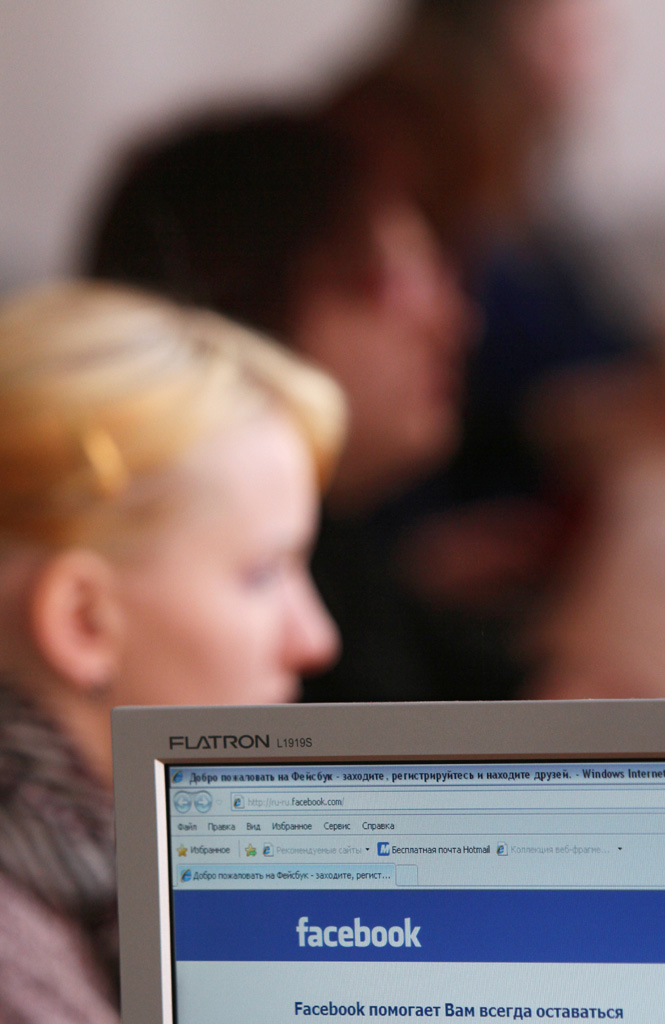 “Facebook social network's page”. Computer with the Internet Facebook social network's open page seen at the computer technology room of the Omsk teacher University.